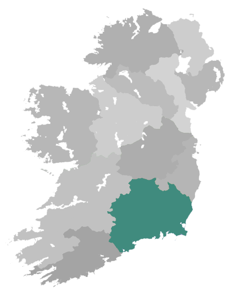 Location map of the Church of Ireland Diocese of Cashel & Ossory Information source: Church of Ireland website]